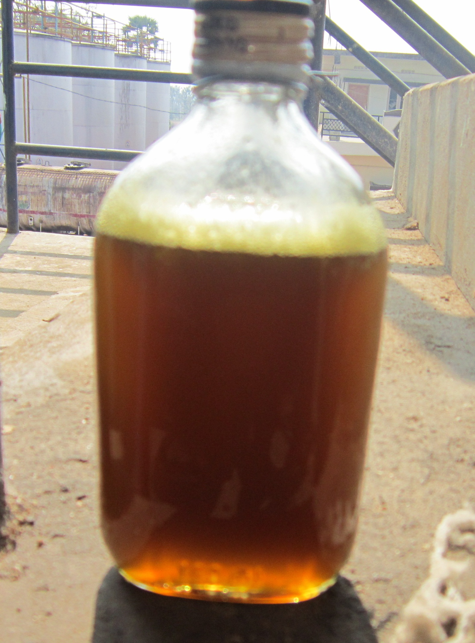 crude Rice bran oil extracted from Rice bran in a solvent extraction plant.